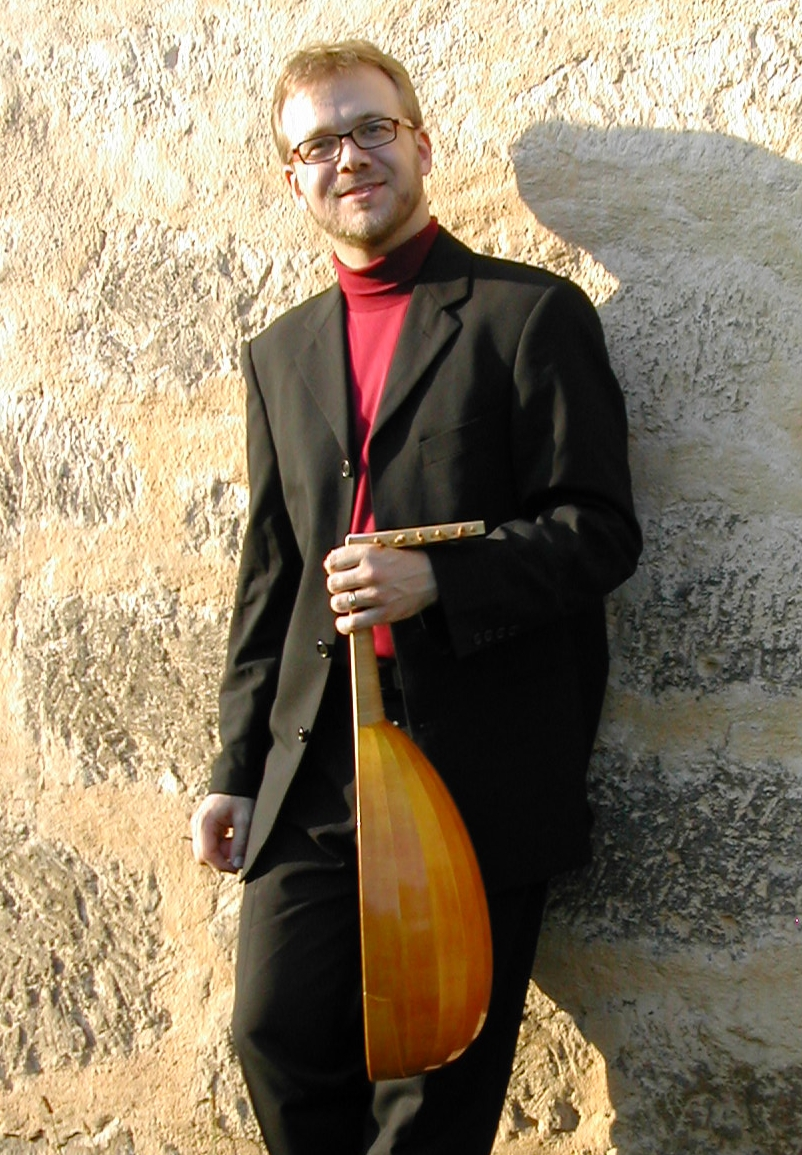 Marc Lewon, musician and music historian with lute in front of the "Gotisches Haus in Burgheßler (Germany)